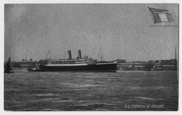 Postal card of the Empress of Ireland at sea